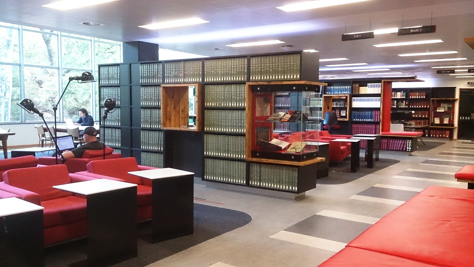 The University of Melbourne. Inside the Baillieu Library in January, 2014